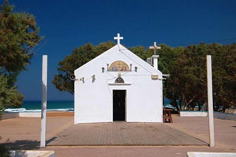 Church at seaside in Kato Gouves (East of Heraklion)